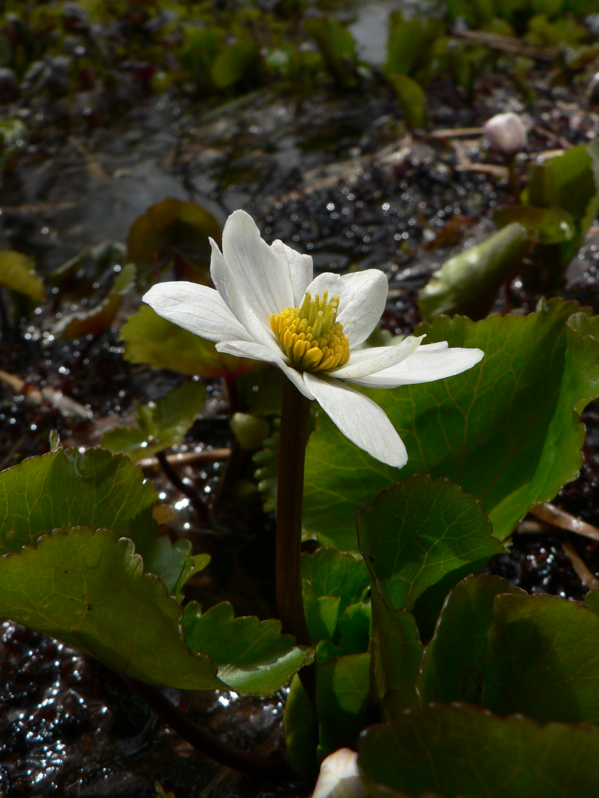 White Marshmarigold, Twinflowered Marshmarigold, Broadleaved Marshmarigold